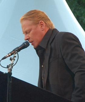 Becker reads the Bible at Katholikentag in 2008, Osnabrück.